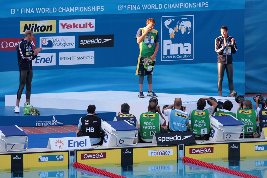 Medal ceremony of the men's 100m freestyle event during 2009 FINA World Championships, Rome, Italy. From left to right : Alain Bernard (France, silver medal), Cesar Cielo (Brazil, gold medal) and Frédérick Bousquet (France, bronze medal).